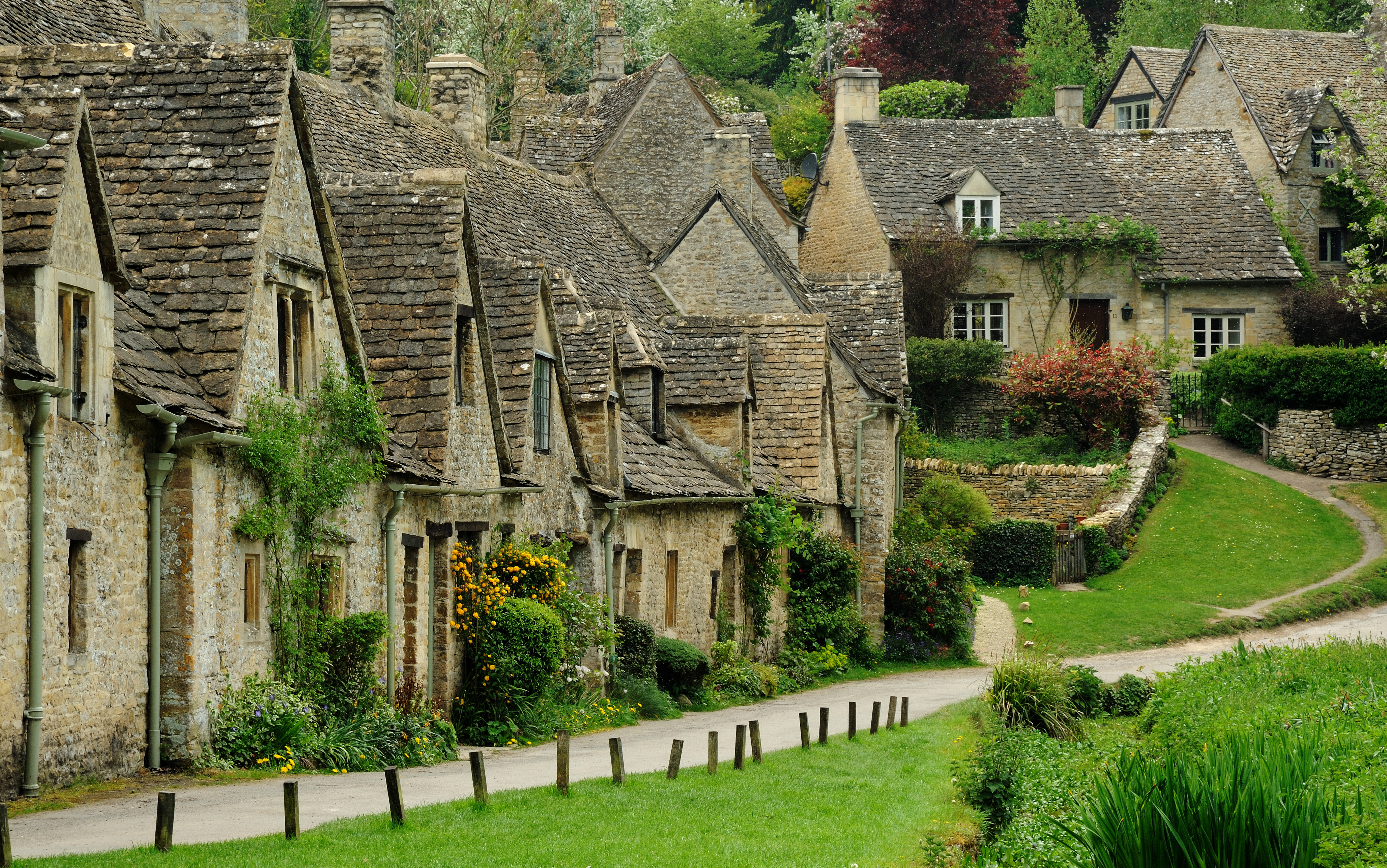 Arlington Row in Bibury, Gloucestershire was built in 1380 as a monastic wool store. The buildings were converted into weavers' cottages in the 17th century.